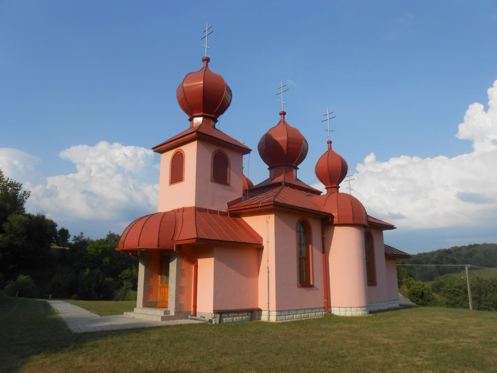 Orthodox church of saint Vladimir of Kiev in Hrabova Roztoka